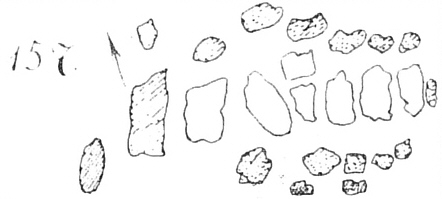 Outline of the dolmen Tangeln 5, Saxony-Anhalt